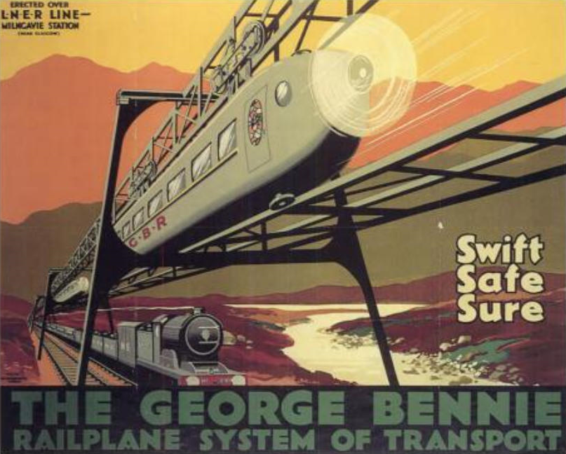 Poster for the Bennie Railplane system from 1929.